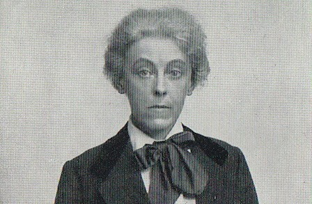 Charlotte-mew